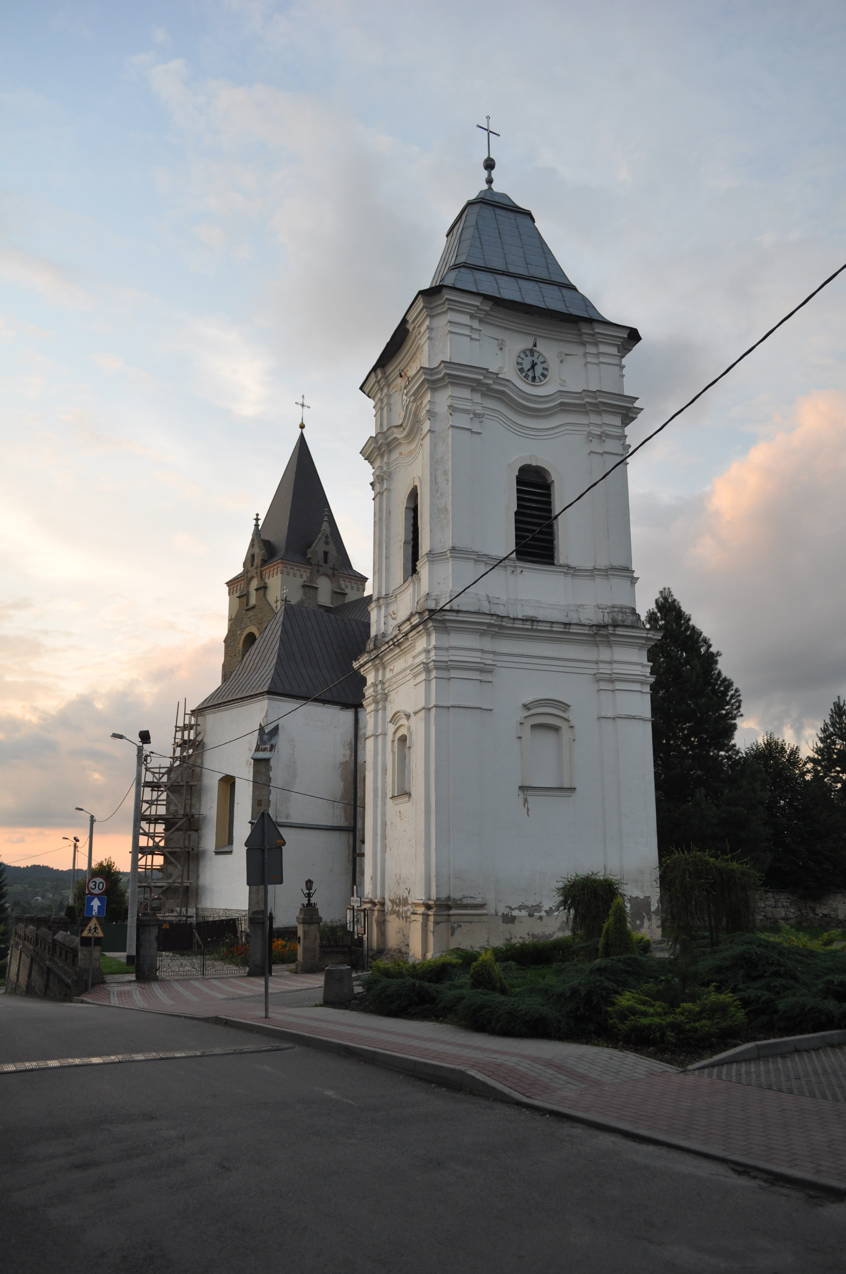 Church in Lesko